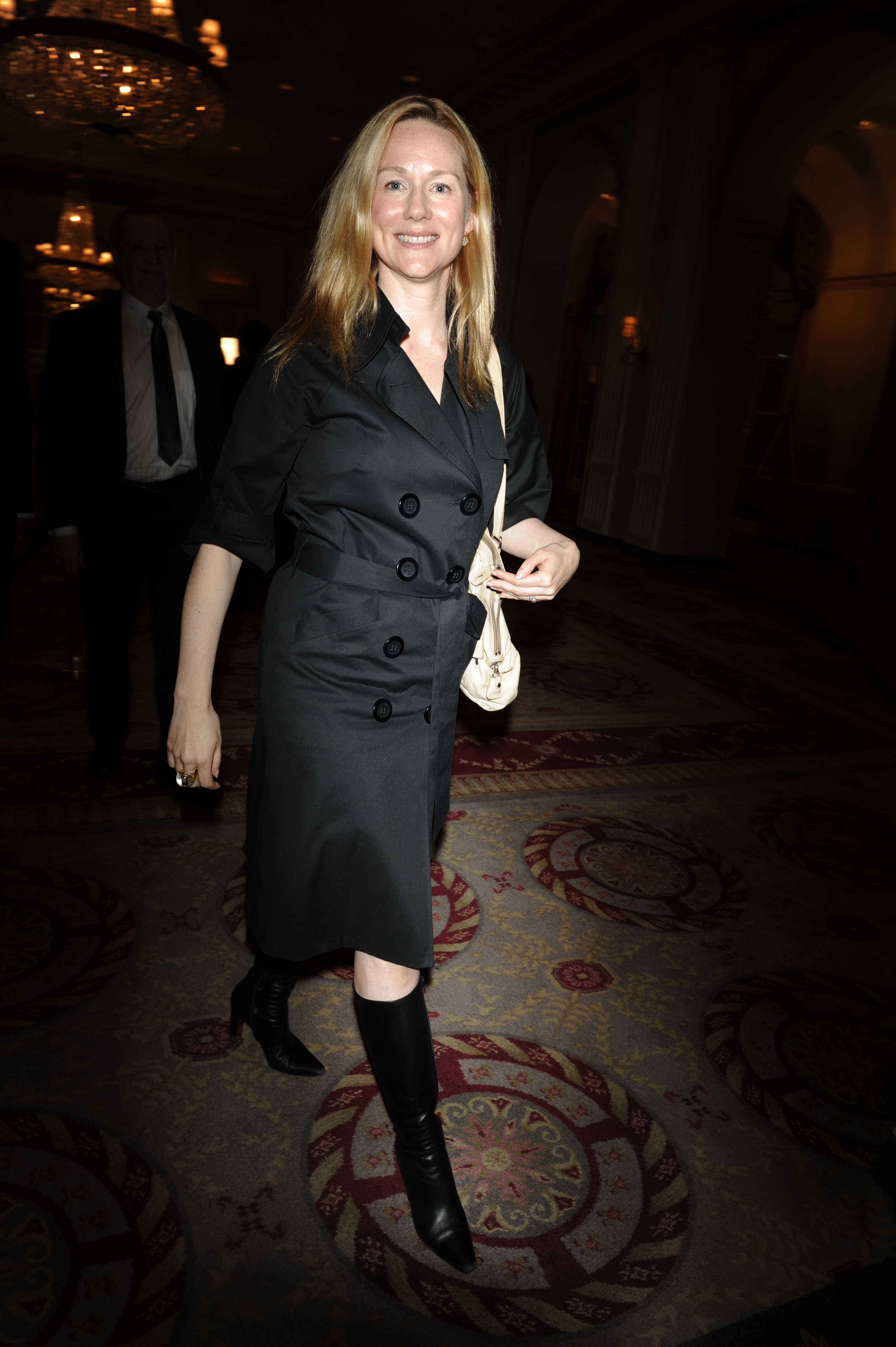 PHOTO CREDIT: ANDERS KRUSBERG / PEABODY AWARDS Laura Linney 68th Annual Peabody Awards Luncheon Waldorf=Astoria Hotel New York, NY USA May 18, 2009